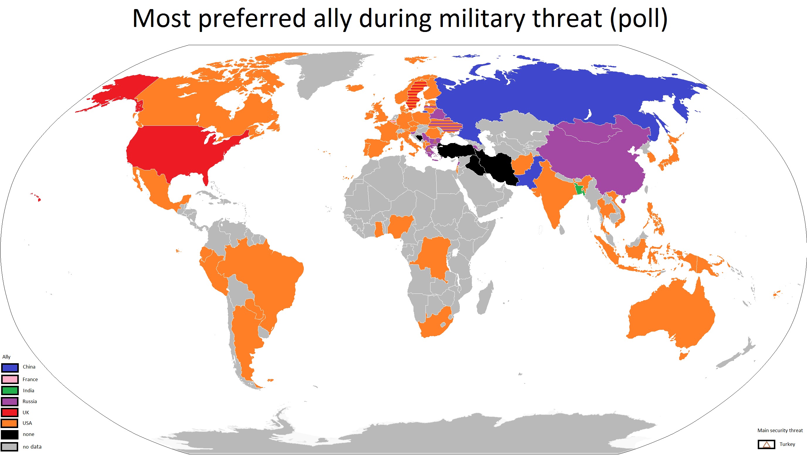 Gallup poll of nearly 1000 participants from each of the 66 countries (66,541) conducted in Oct-Dec 2016. Stripped indicates difference in the margin of error (up to 5%).